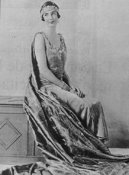 Princess Françoise of Orléans circa 1922